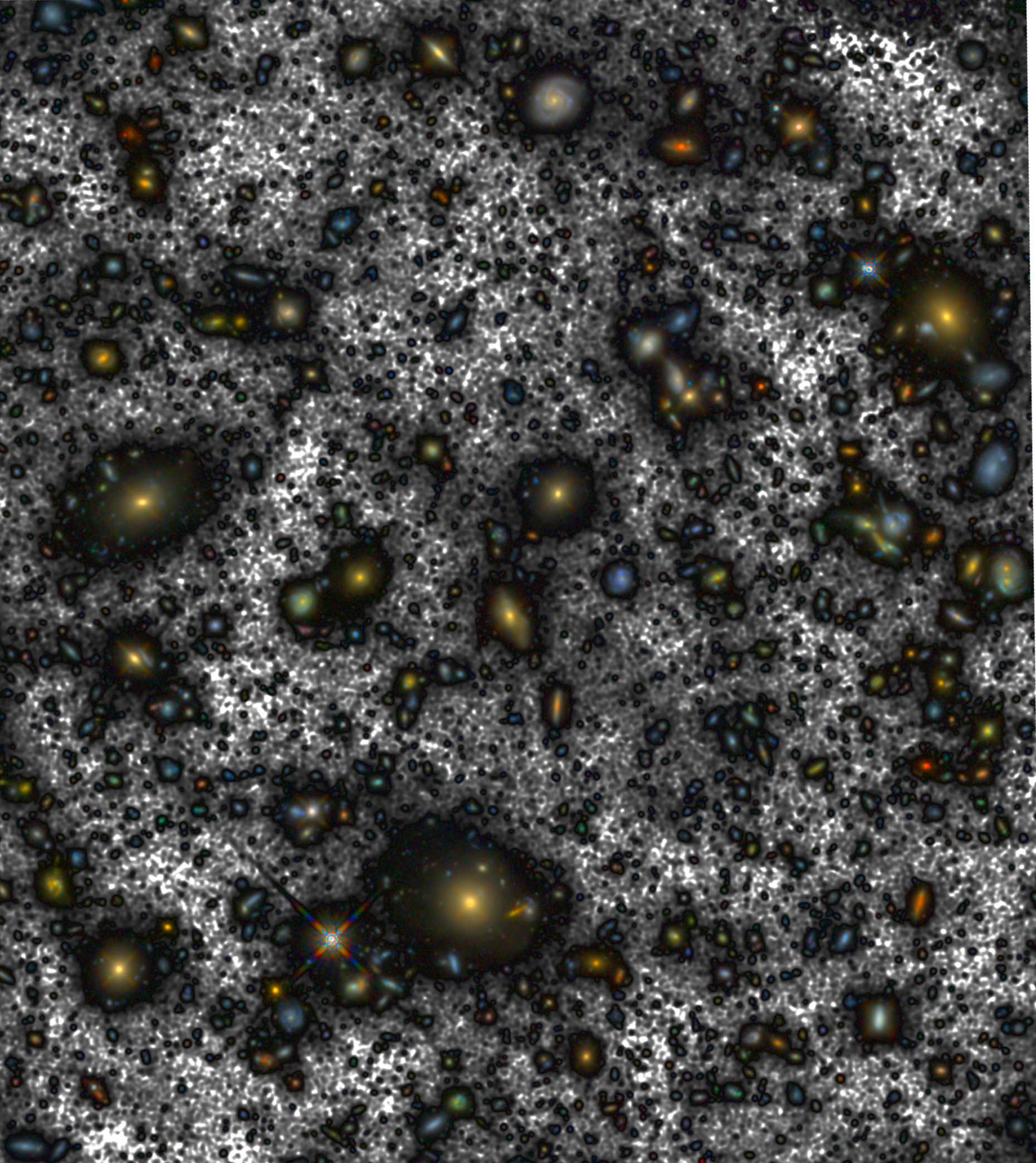 Luminance-RGB image showing the full depth of the mosaics of the ABYSS version of the HUDF WFC3 IR. The high signal-to-noise parts of the mosaics are represented with colours (Red: F160W,Green: mean of F125W and F140W bands, Blue:F105W). The low signal-to-noise regions are represented in as a black and white background (black regions are brighter than white regions) according to the mean image of the four mosaics (F105W, F125W, F140W, F160W) of the mosaics of the ABYSS (covering HUDF, deep WFC3 IR region).